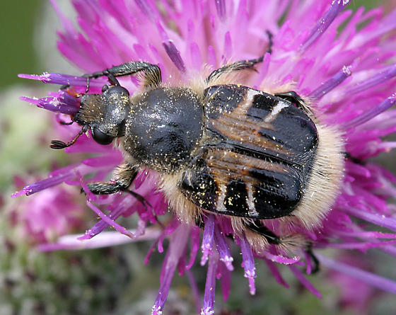 Trichiotinus assimilis. Neebish Island, Chippewa County, Michigan, USA. 11mm length.